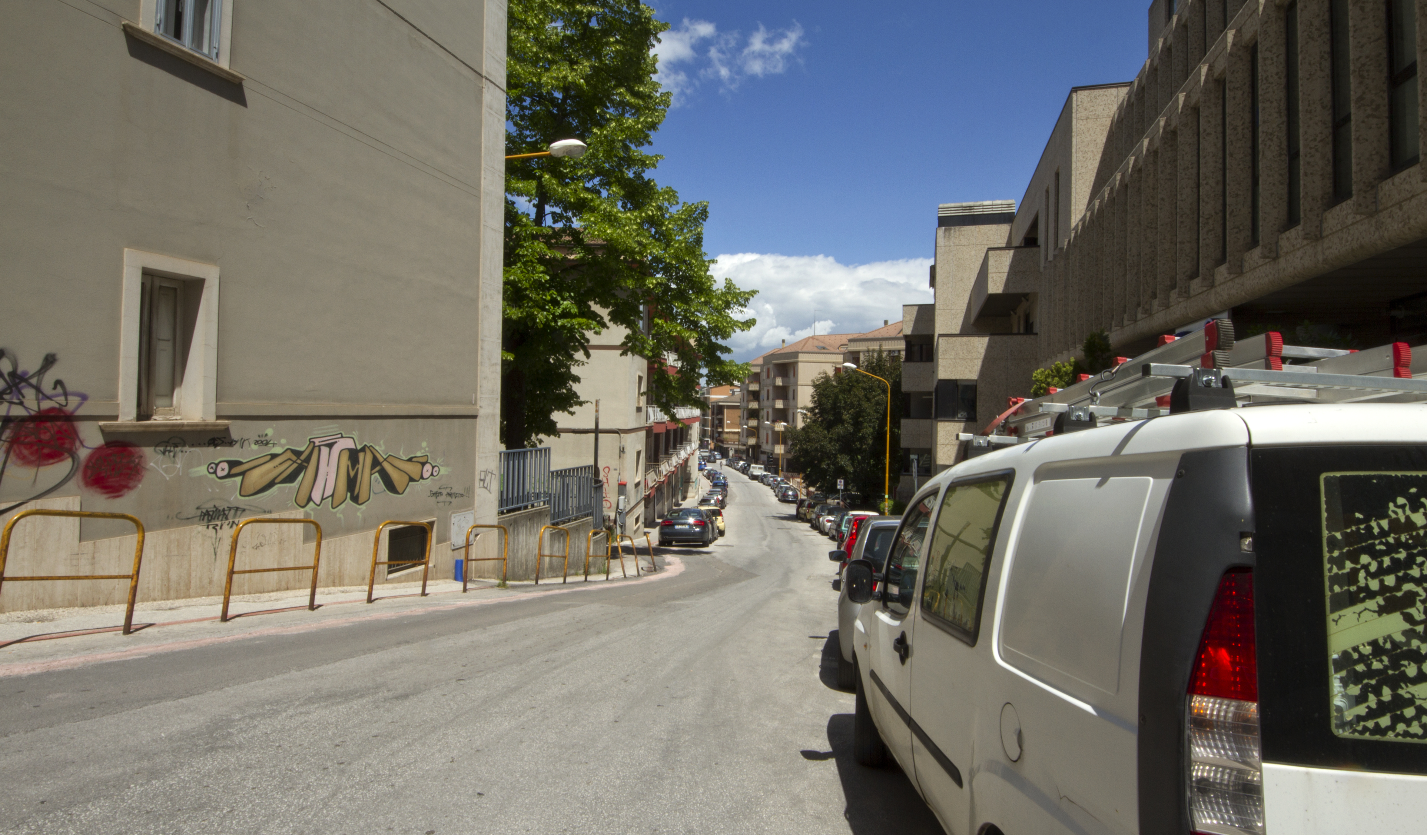 Murat Town, 86100 Campobasso, Italy